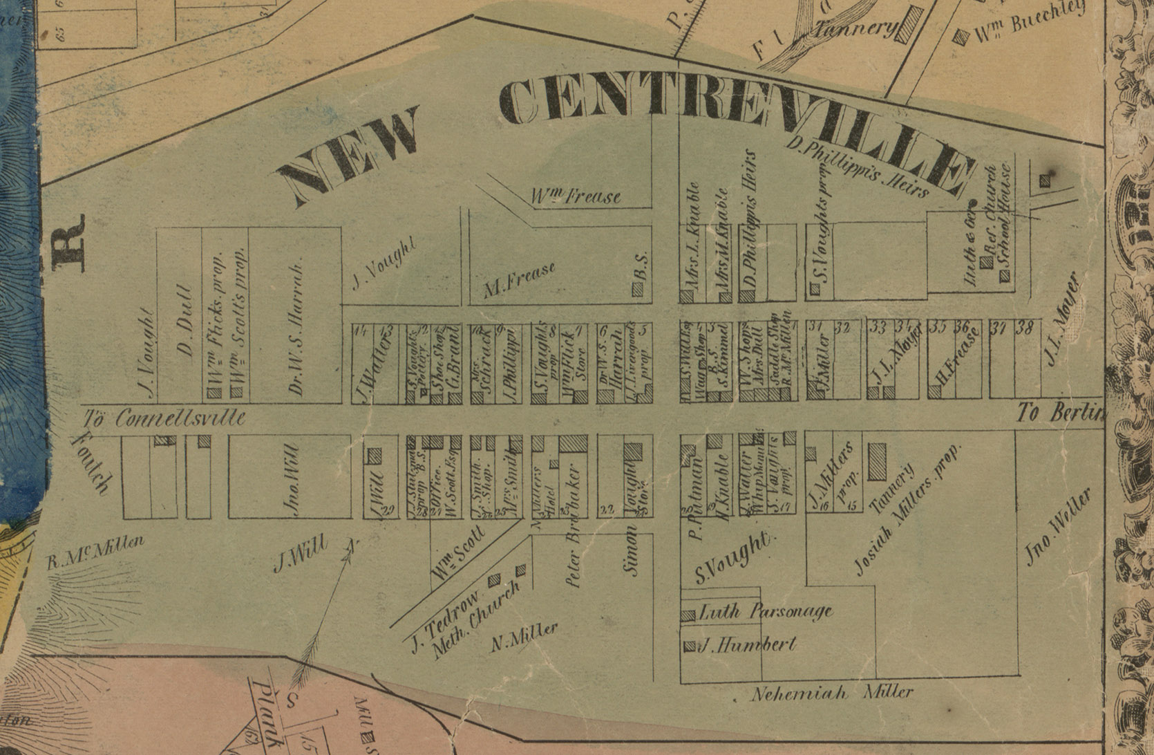 Inset map of New Centerville, Pennsylvania, taken from 1860 Edward L Walker map of Somerset County available at the Library of Congress website